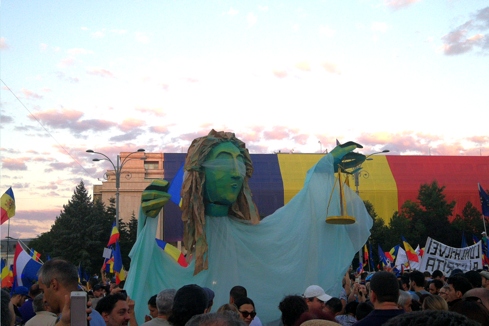 10 August -Protest against corruption, Bucharest 2018, Victory Square